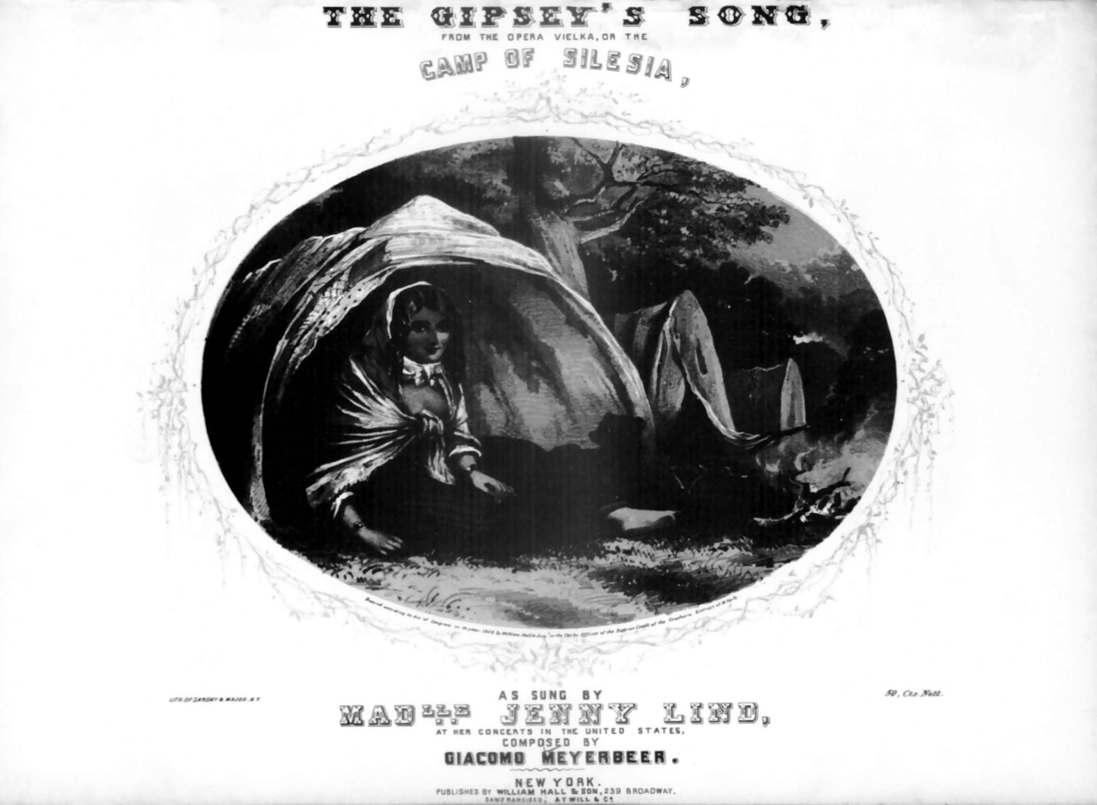 Jenny Lind as Vielka, in Meyerbeer's opera (1847)